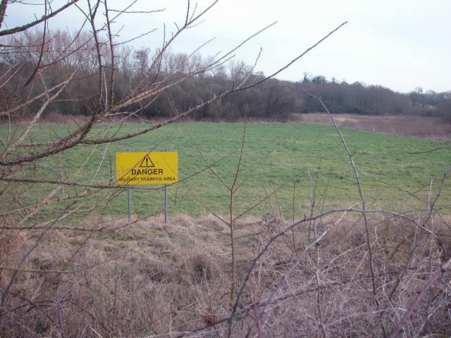 Military Training Ground